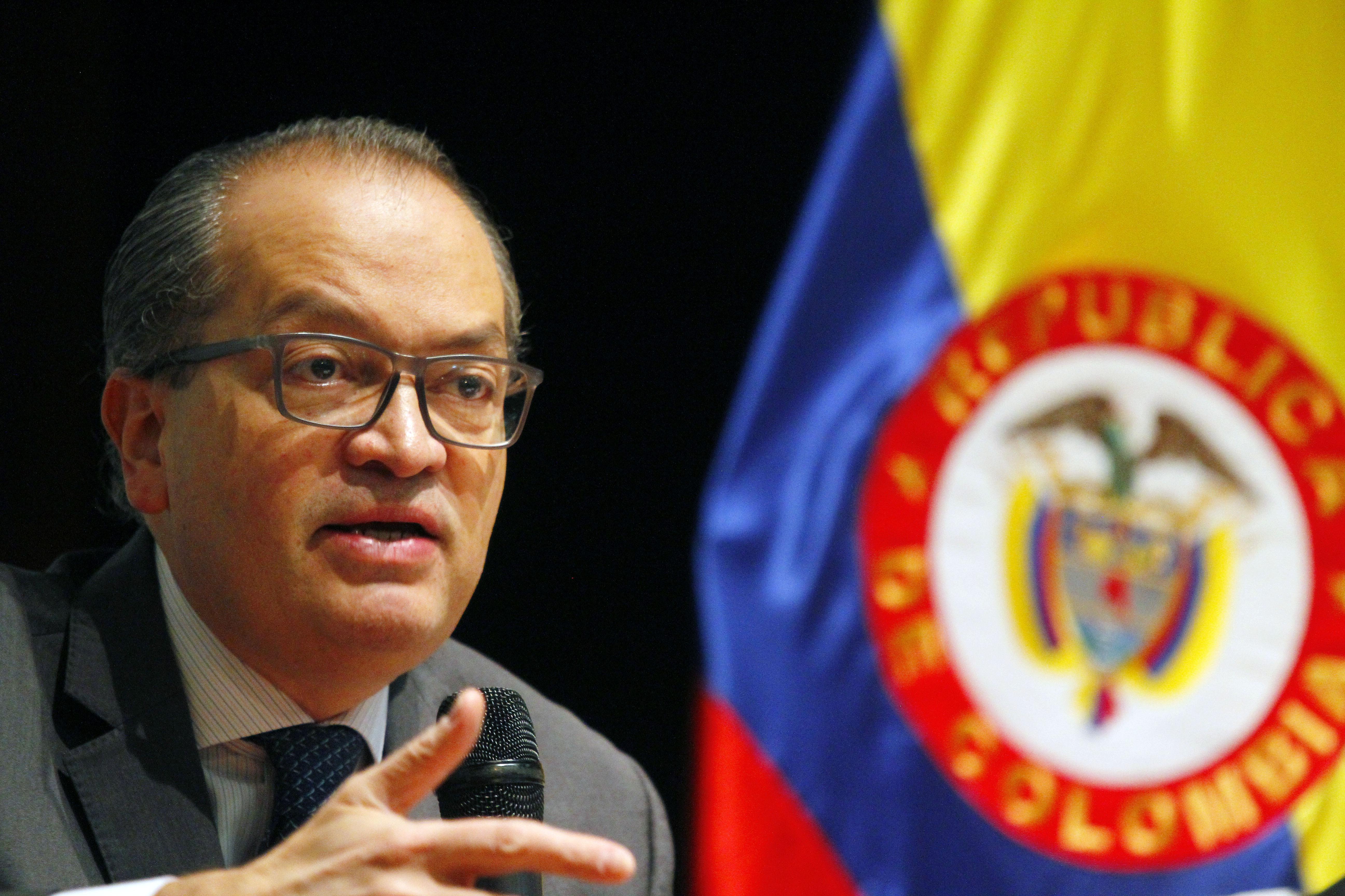 Colombian Procurador General Fernando Carrillo Flórez (Bogotá, 1963)